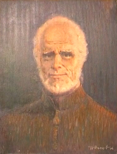 Portrait of Tenyo Jelev